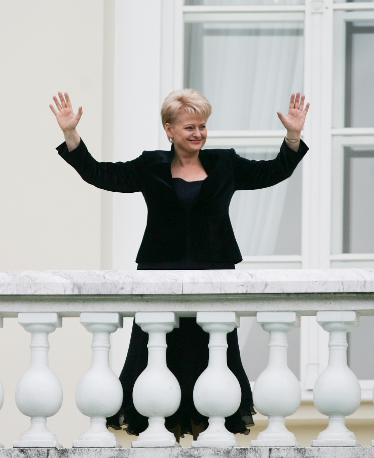 Dalia Grybauskaitė Presidential inauguration, Lithuania, 2009-07-12